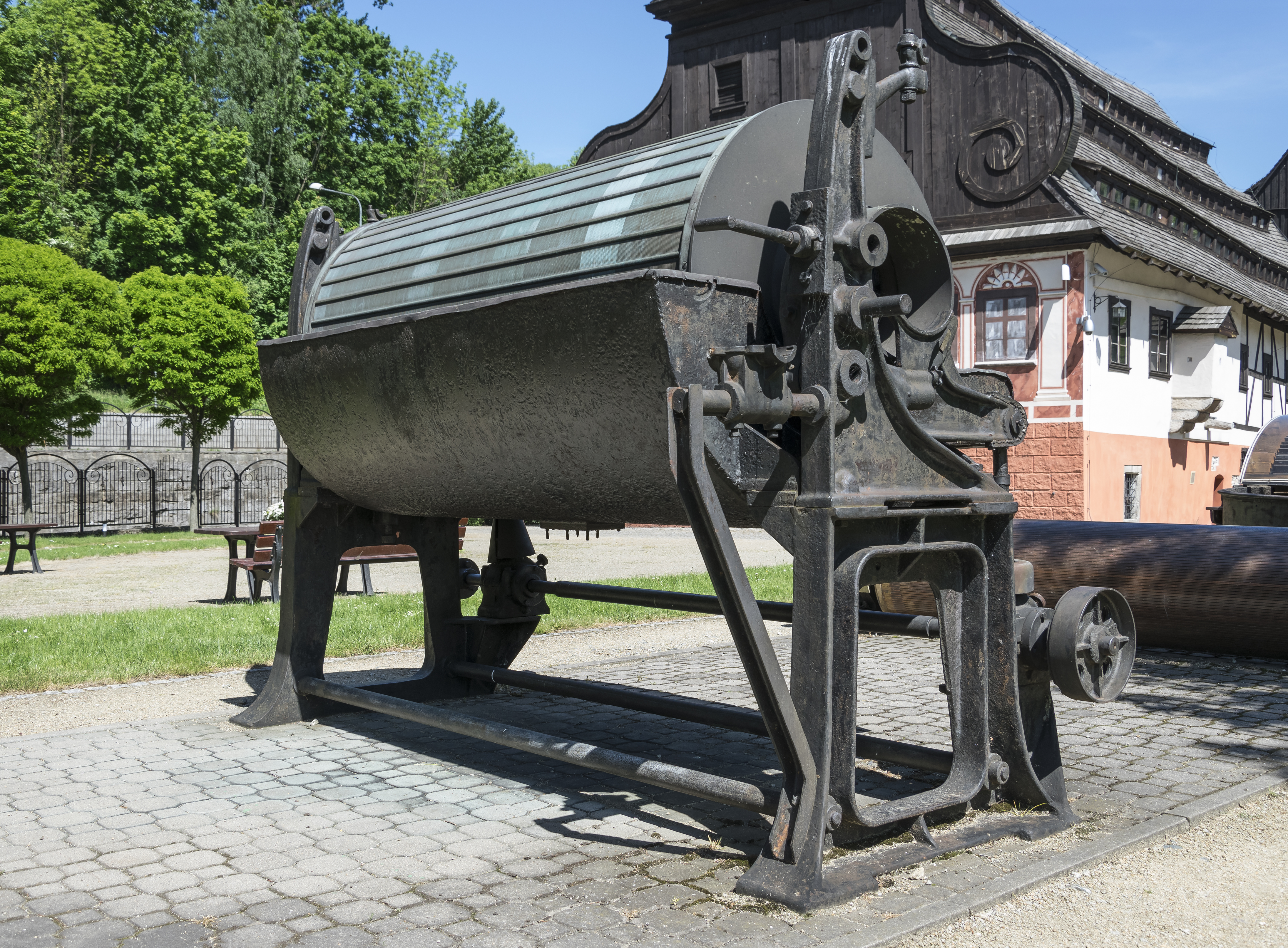 Museum of Papermaking in Duszniki-Zdrój, device for cleaning paper pulp